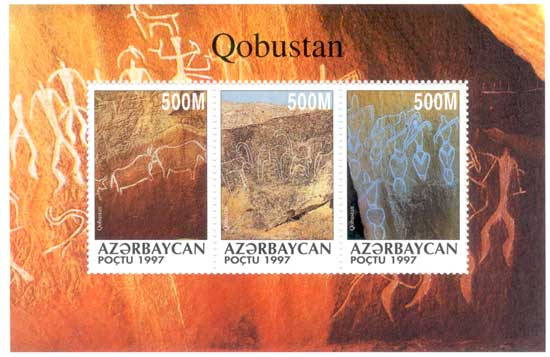 The pictures on the rocks in Gobustan reserve in X-V century B.C.